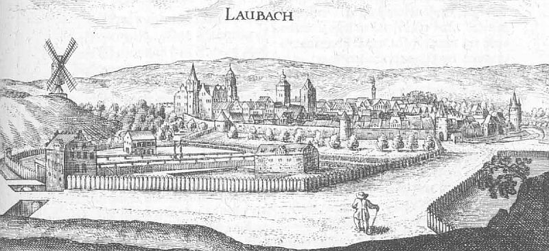 This is a scan of the historical document: Title: Laubach - Topographia Hassiae language: german